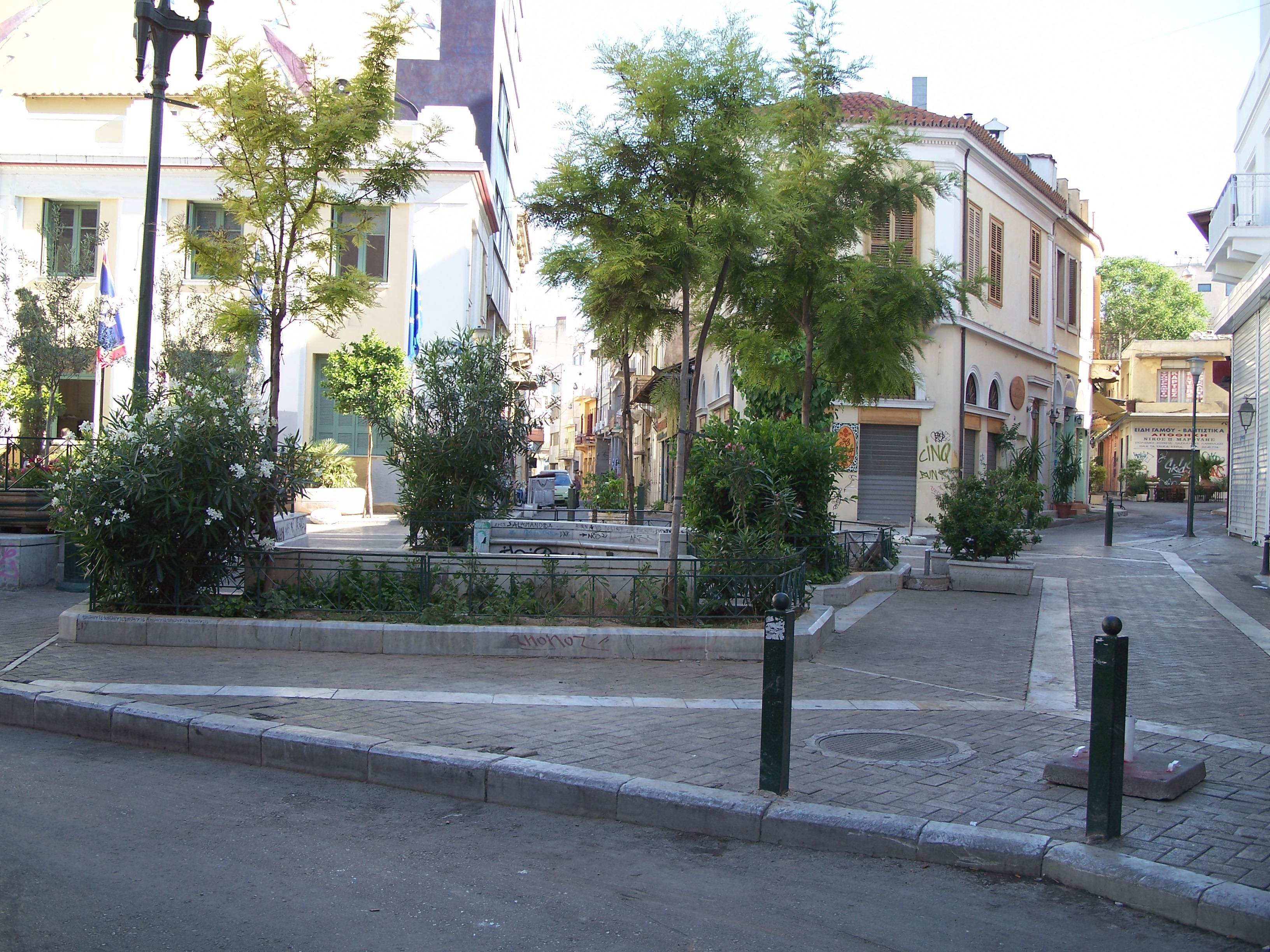 Psyrri square, center of the quarter by the same name in Athens, Greece